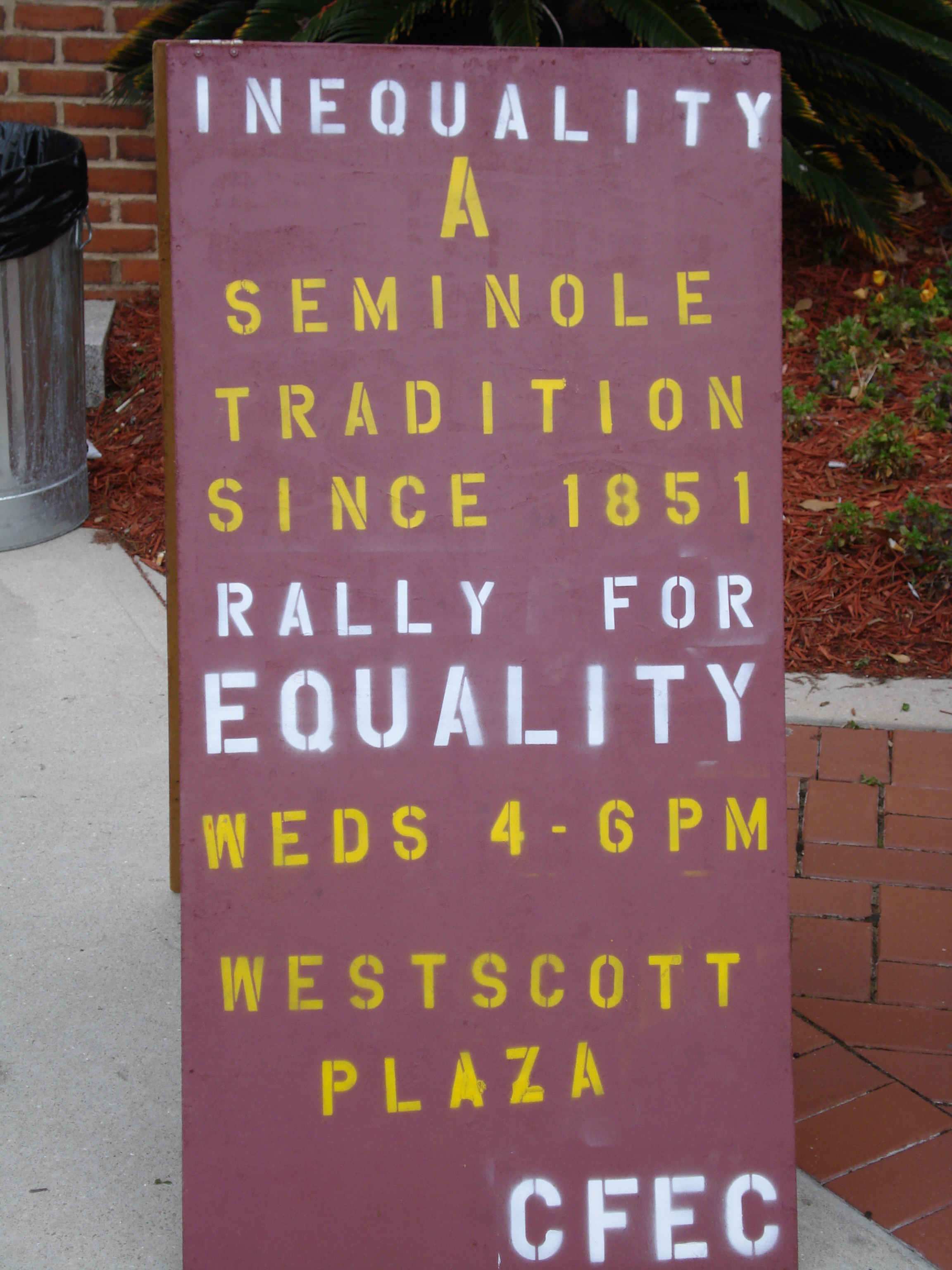 Picture of a flipboard from the Coalition for an Equitable Community Protest in front of Westcott Hall on February 13th, 2008.